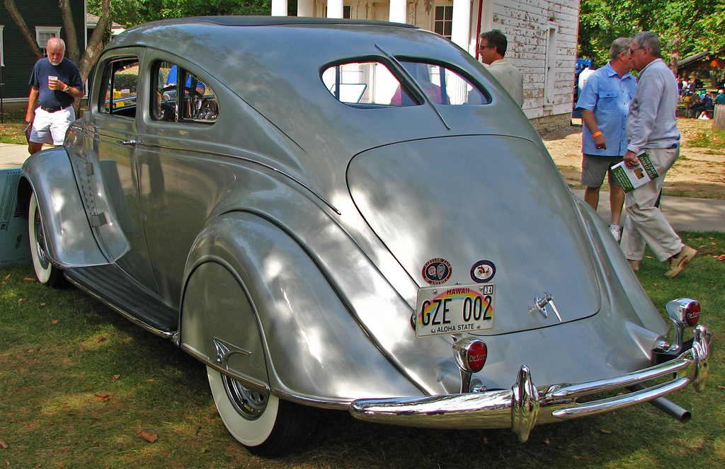 1934 DeSoto Airflow. Seeing the airflows at the Dayton Concours d'Elegance triggered memory of first seeing the streamlined vehicles on the streets of Columbus, Ohio. I was in 4th grade when they first came out. A good article